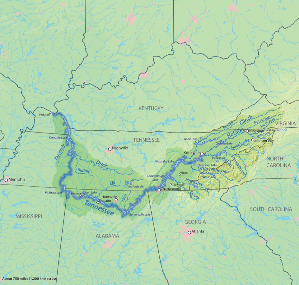 Map showing the Tennessee River with tributaries lakes and cities